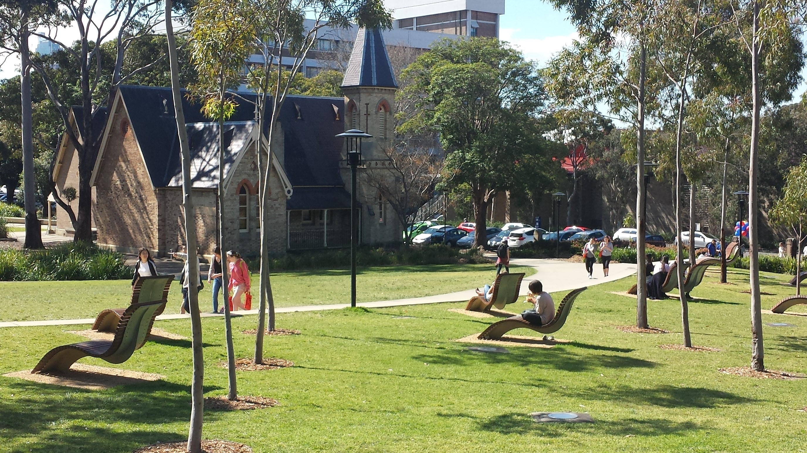 Cadigal Green Author: muzzawb